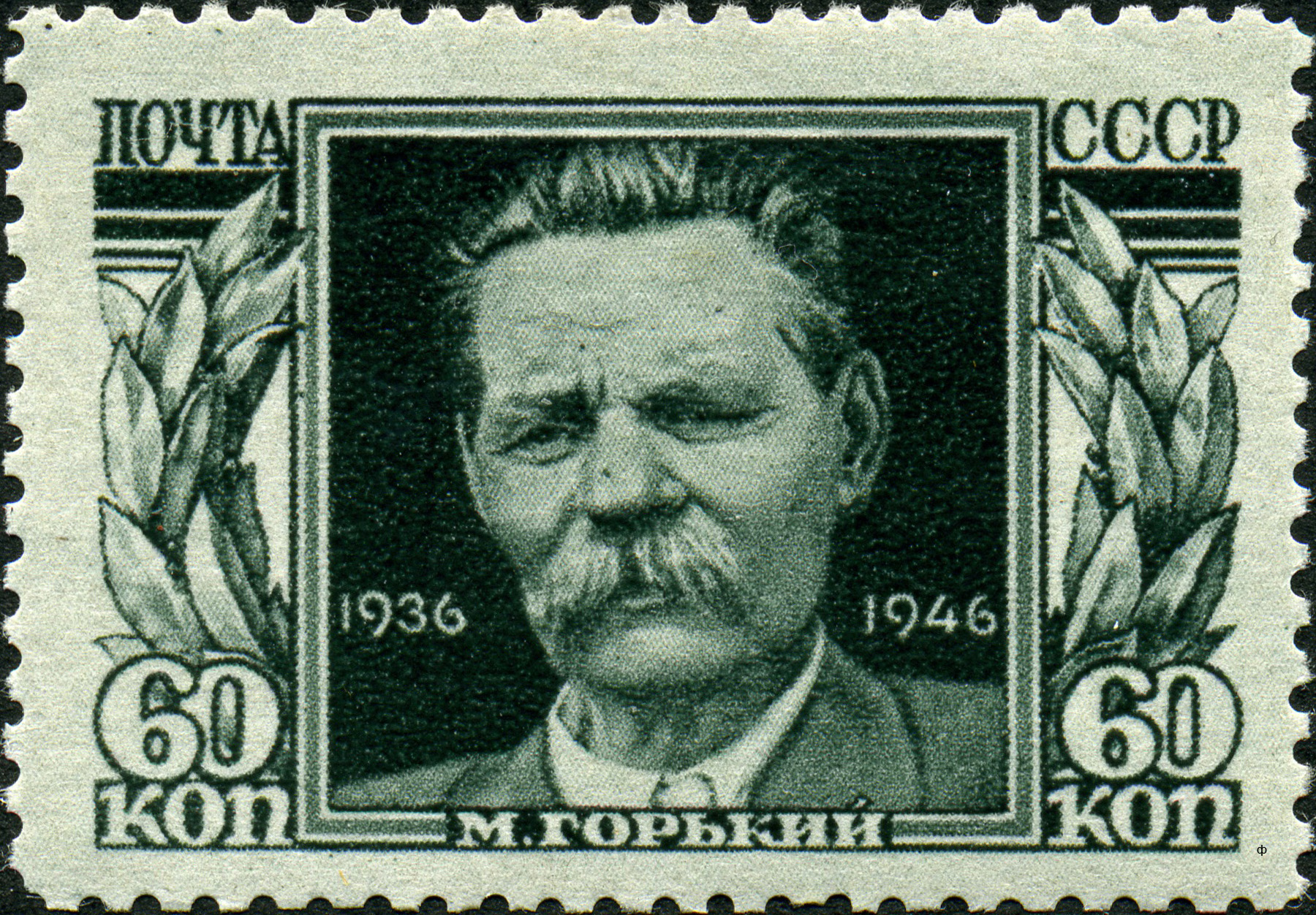 Maksim Gorky in former USSR stamp. CPA 1054